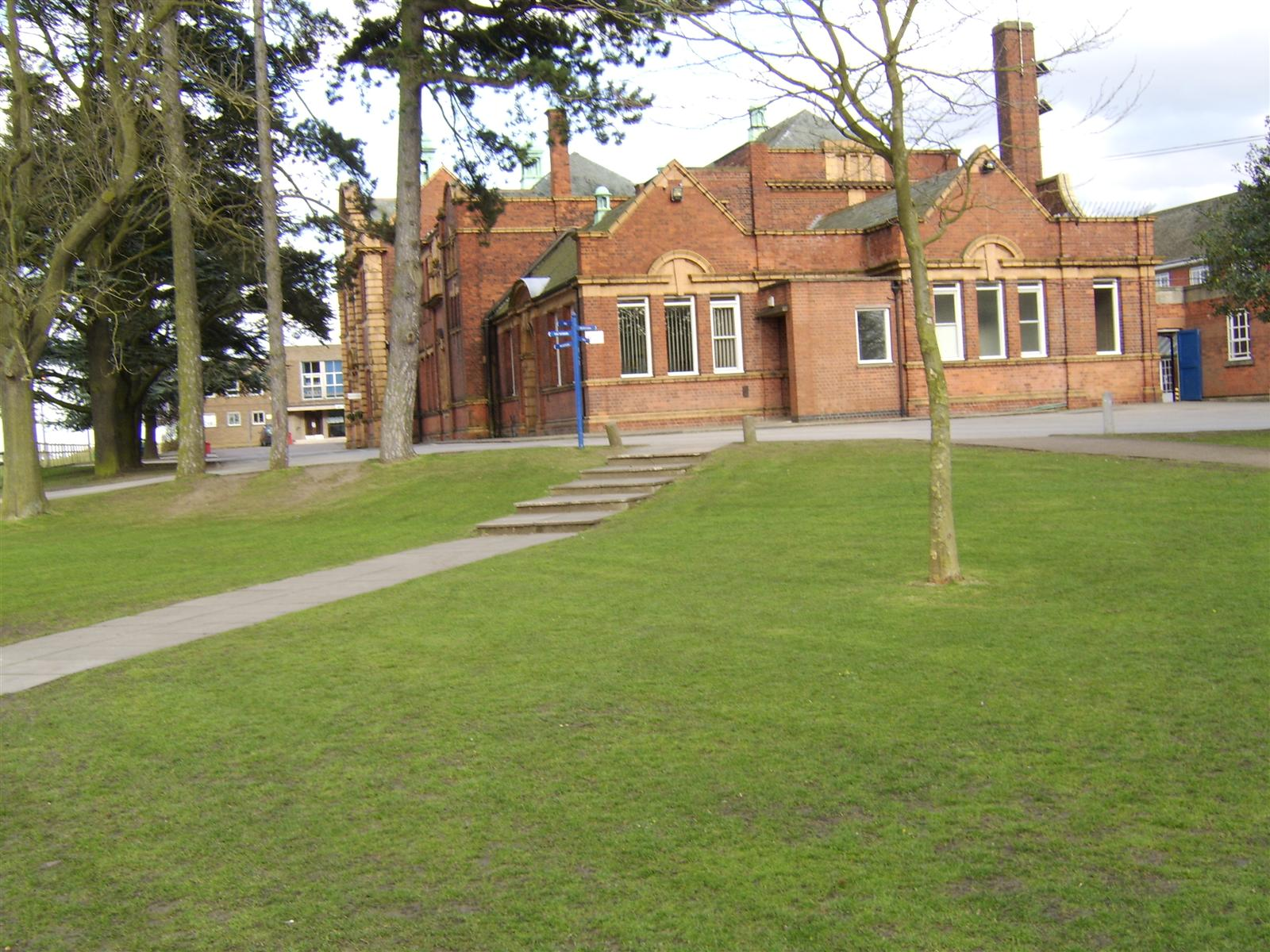 A photo of the King Edward VII School in Melton Mowbray, Leicestershire